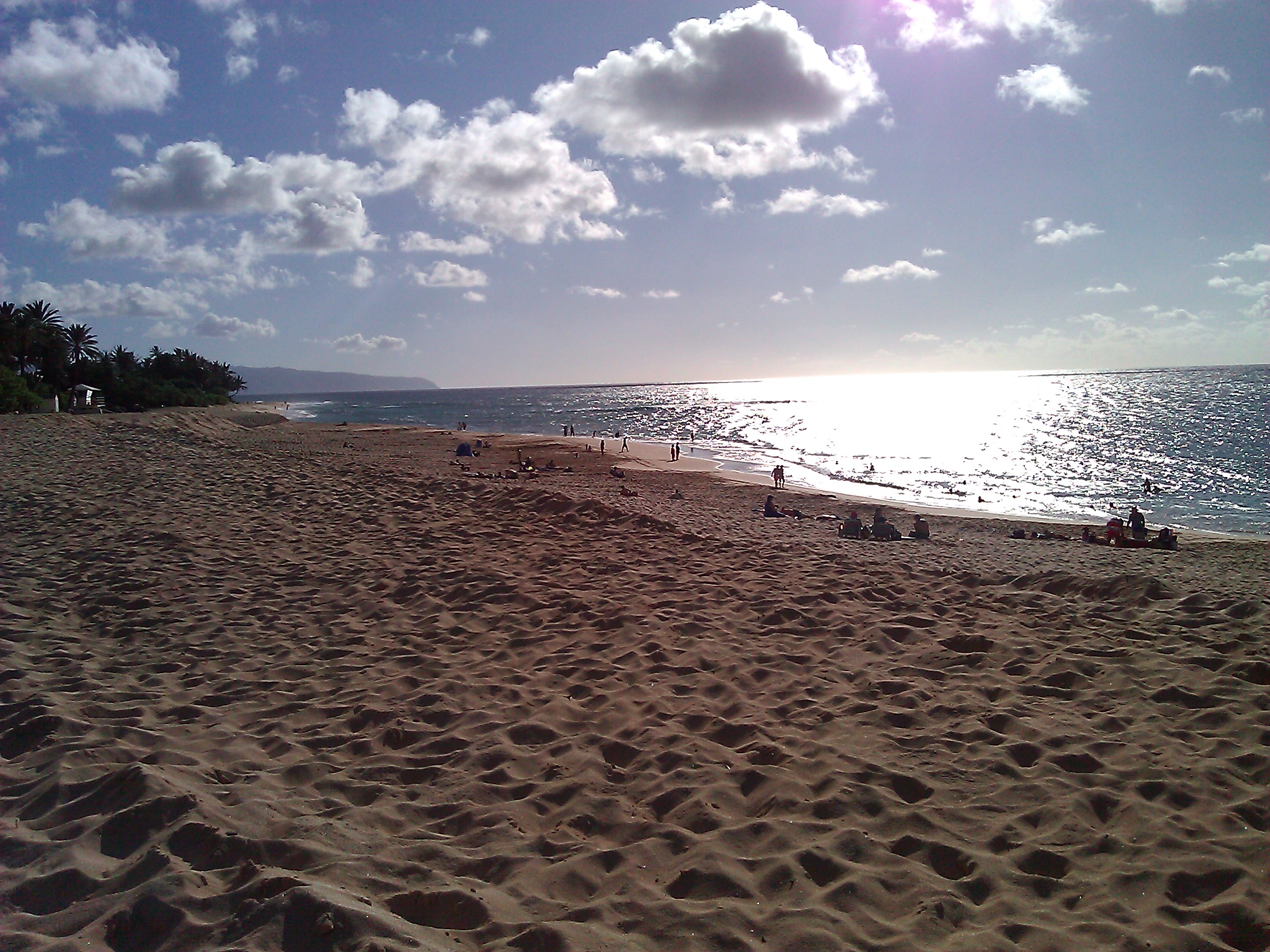 Pūpūkea_Sunset_Beach_Oahu_Hawaii_Photo_D_Ramey_Logan.jpg